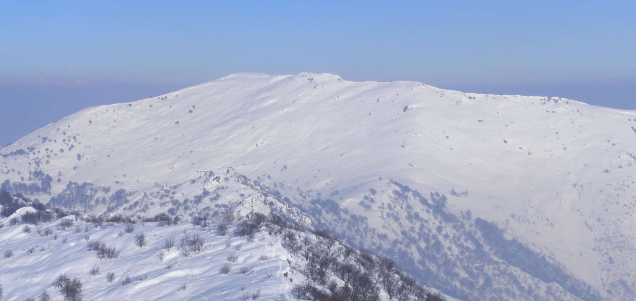 Mount Colombano as seen from Mount Arpone.